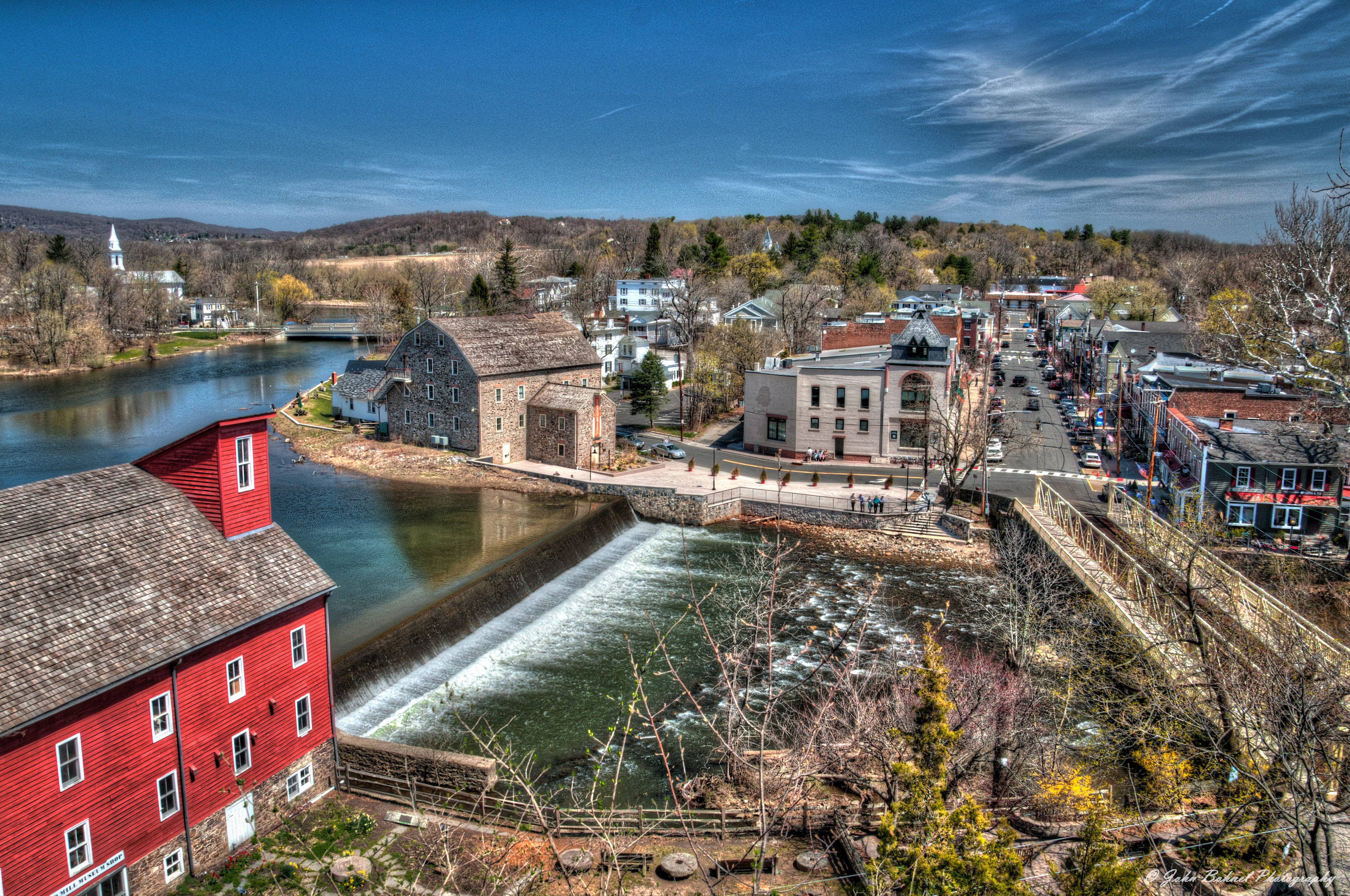 Clinton NJ Easter 2014Deitsch: Clinton New Jersey USA Easter 2014Slovenčina: Clinton New Jersey USA Easter 2014